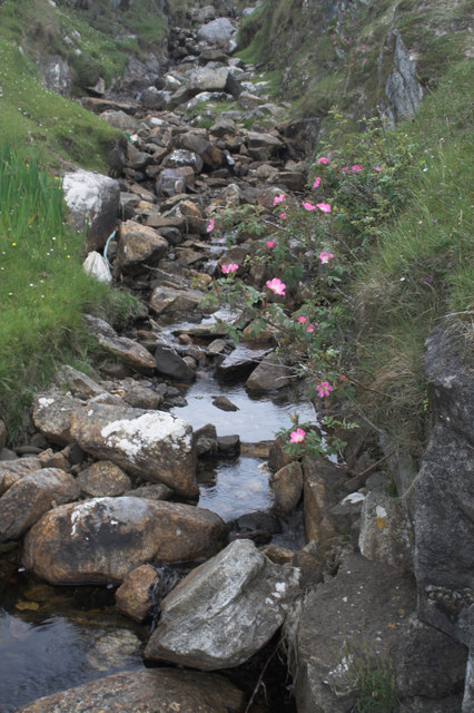 Allt a'Ghill, Taransay A beautiful burn which runs into Corran Rà, an impressive sand spit on the Island of Taransay.